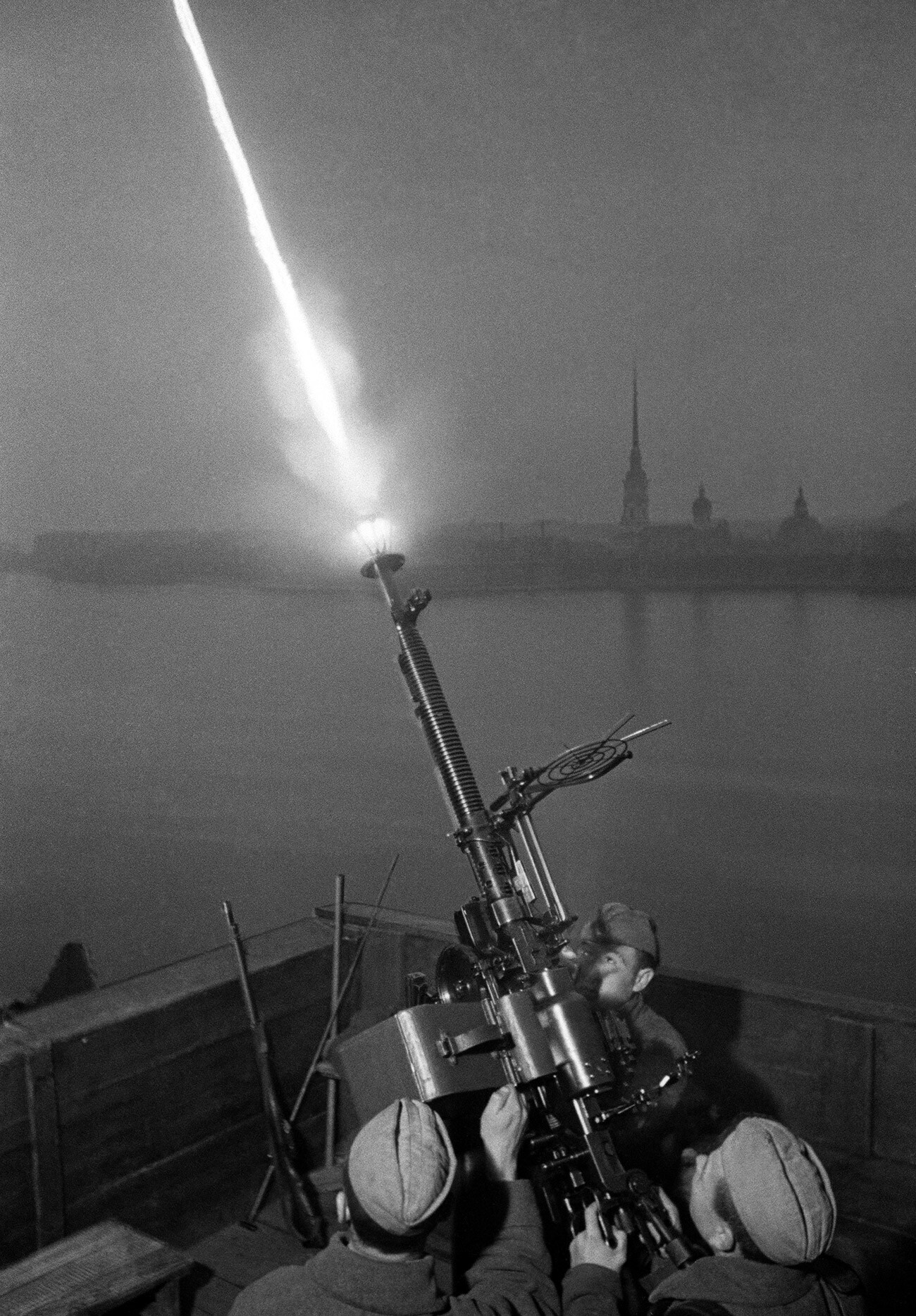 “The anti-aircraft gun crew of Sergeant Fyodor Konoplyov shooting at enemy planes”. The anti-aircraft gun crew of Sergeant Fyodor Konoplyov shooting at enemy planes in Leningrad during World War II